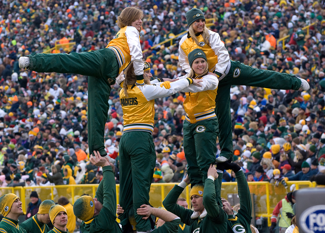 Seattle vs. Green Bay • December 27, 2009 at Lambeau Field in Green Bay, Wisconsin.